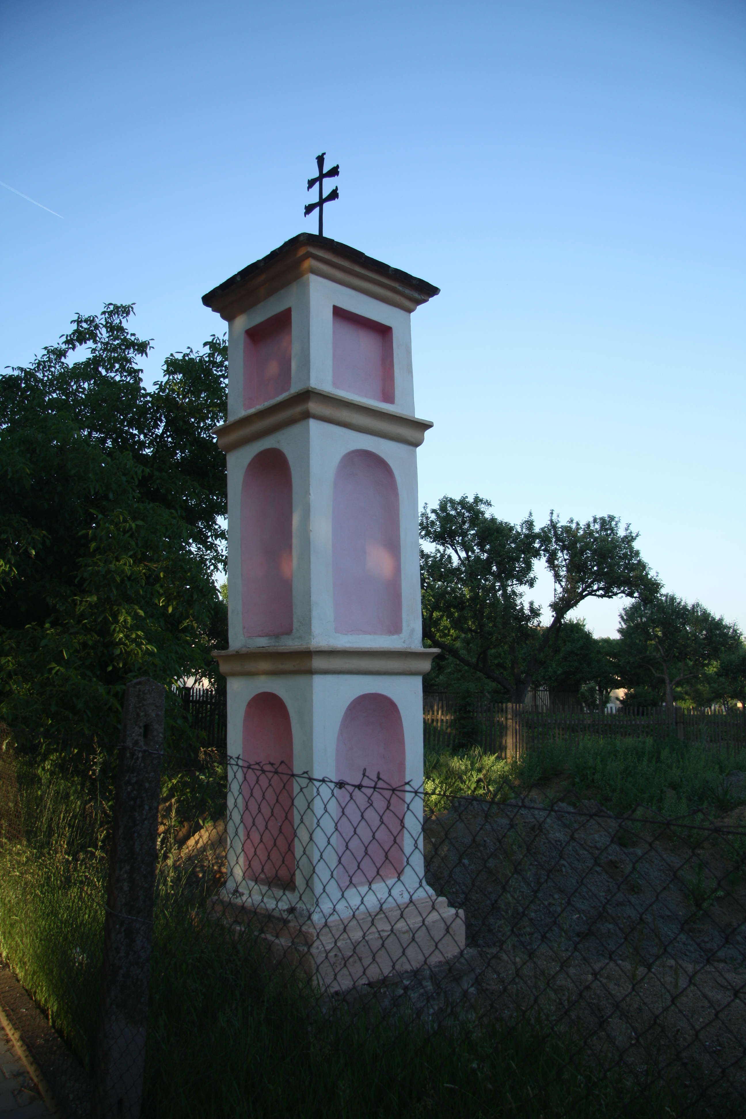 Cultural monument Wayside shrines in garden Dešov 121 in Dešov, Třebíč District.